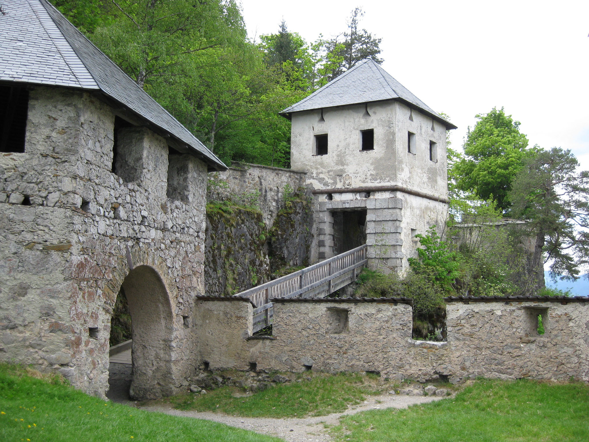 Hochosterwitz castle (slovenian: grad Ostrovica), castle in Carinthia state, Austria 5th door